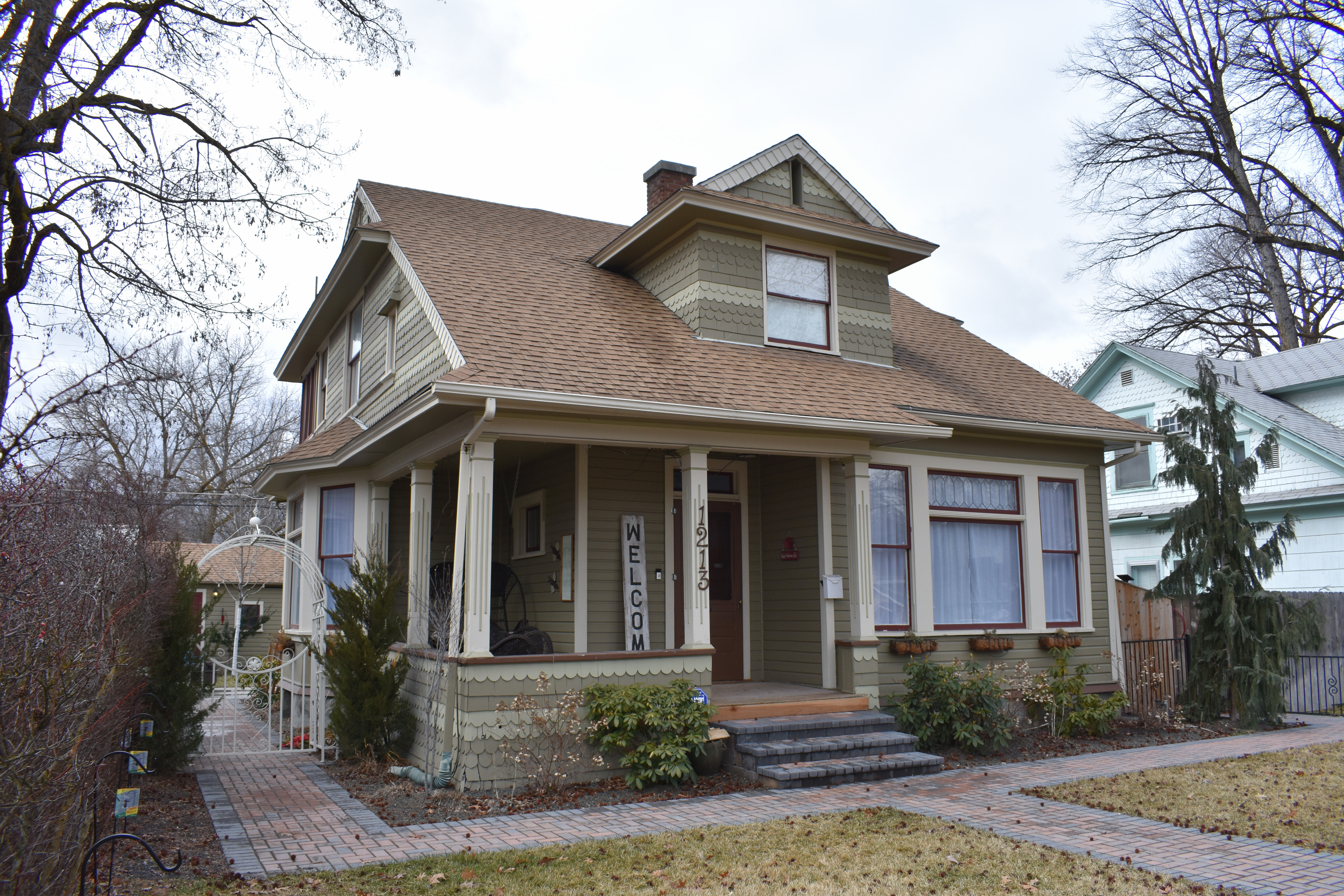 The Charles Paynton House (1900) in Boise, Idaho, was designed by John E. Tourtellotte and is listed on the National Register of Historic Places.